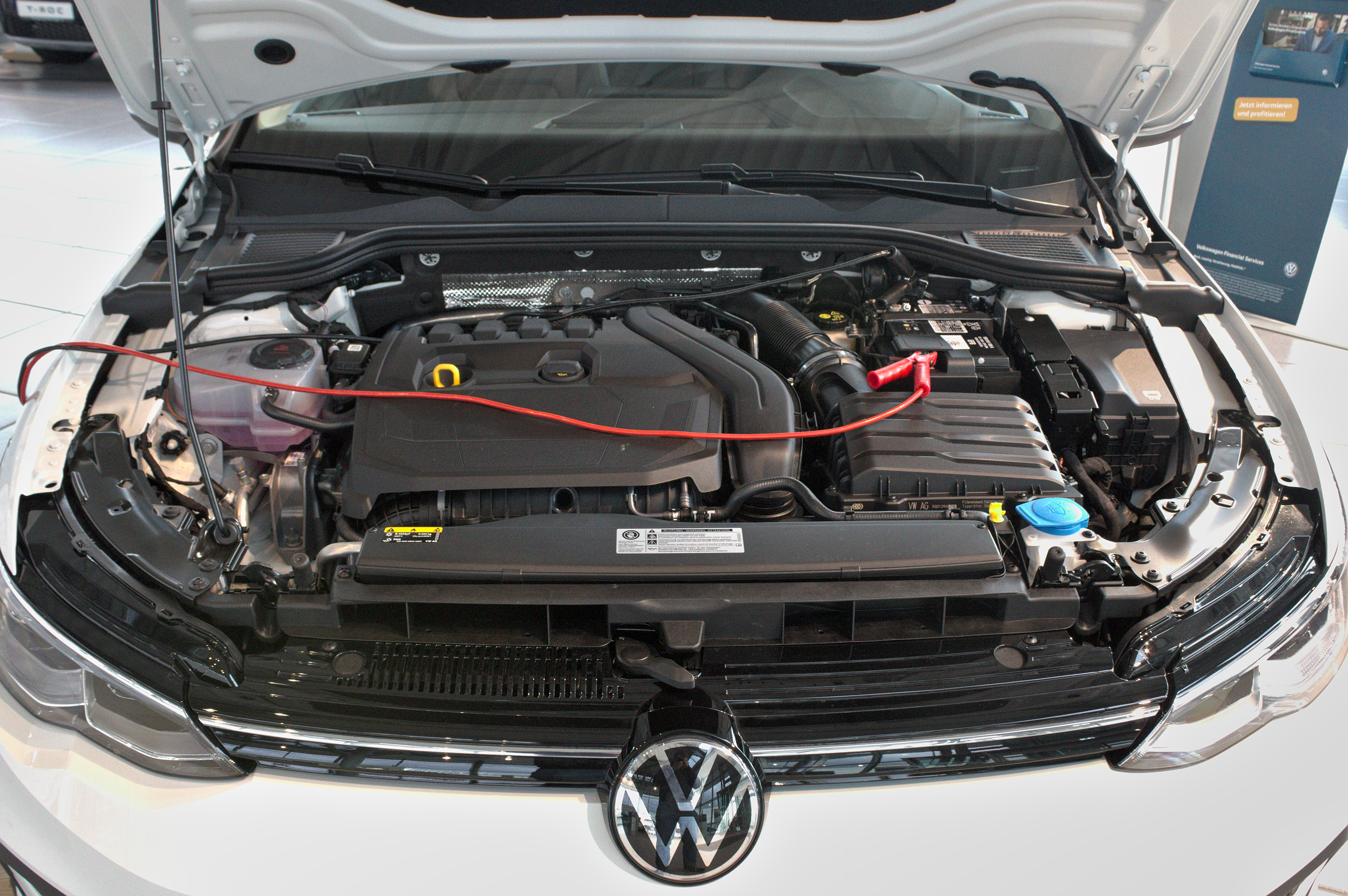 Volkswagen_Golf_VIII in Stuttgart-Vaihingen